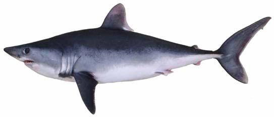 Porbeagle shark (Lamna nasus)